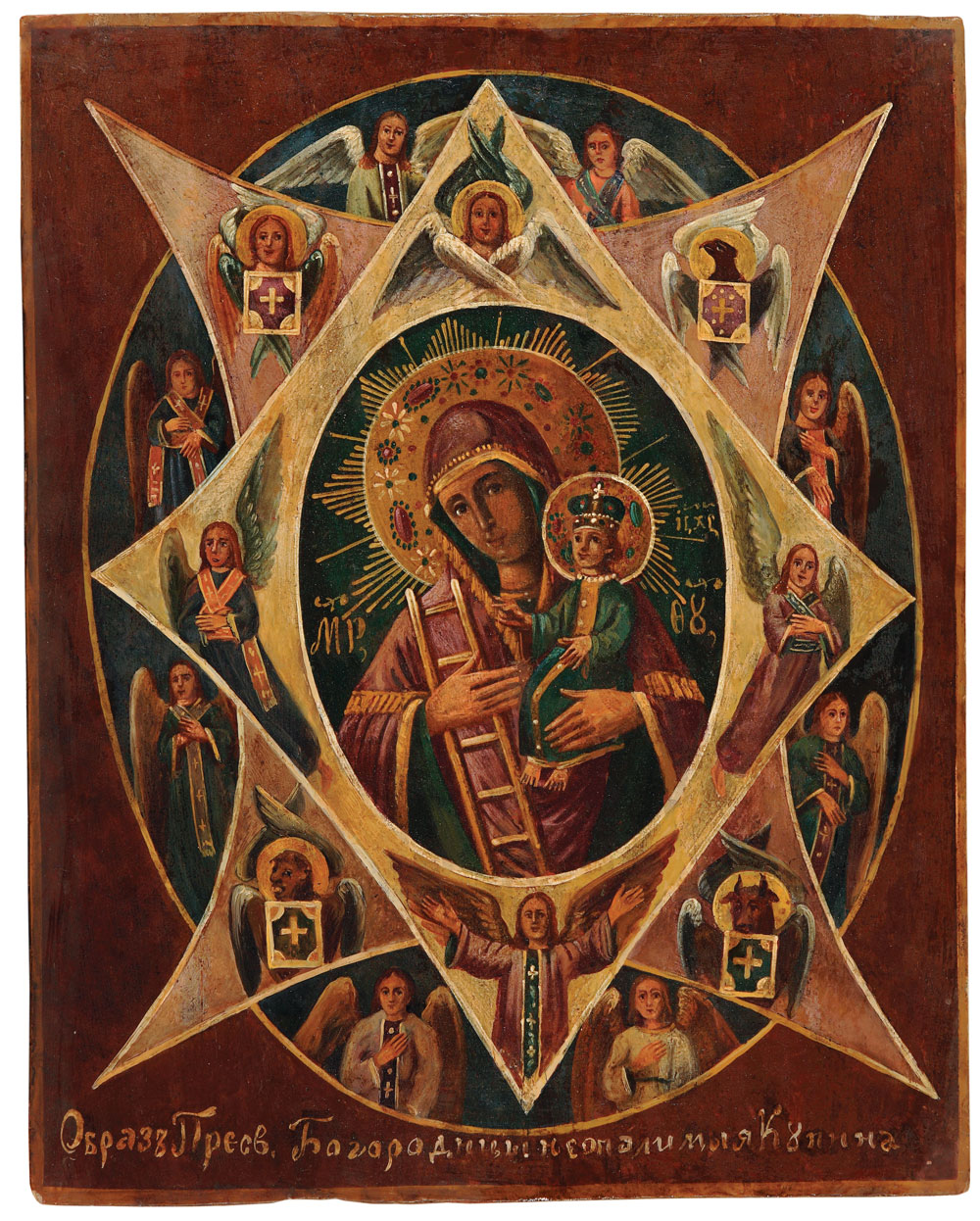 The Icon of the Theotokos Unburnt Bush. Kyiv region, the middle of the 19th c. The Museum of Ukrainian home icons, Radomysl Castle, Ukraine